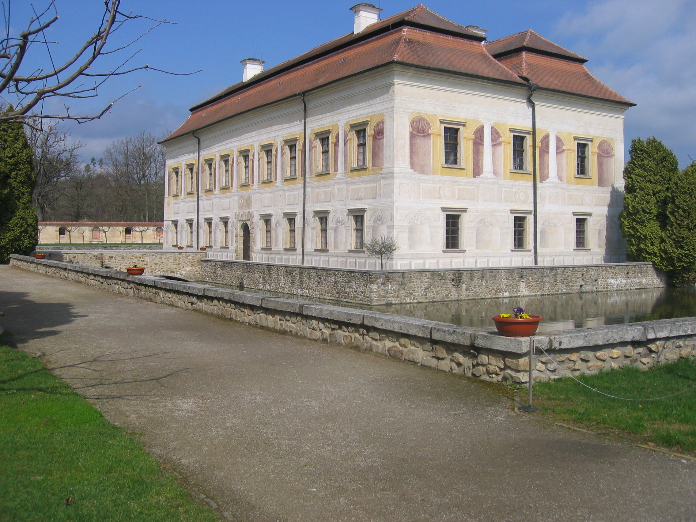 Castle Kratochvíle - front view